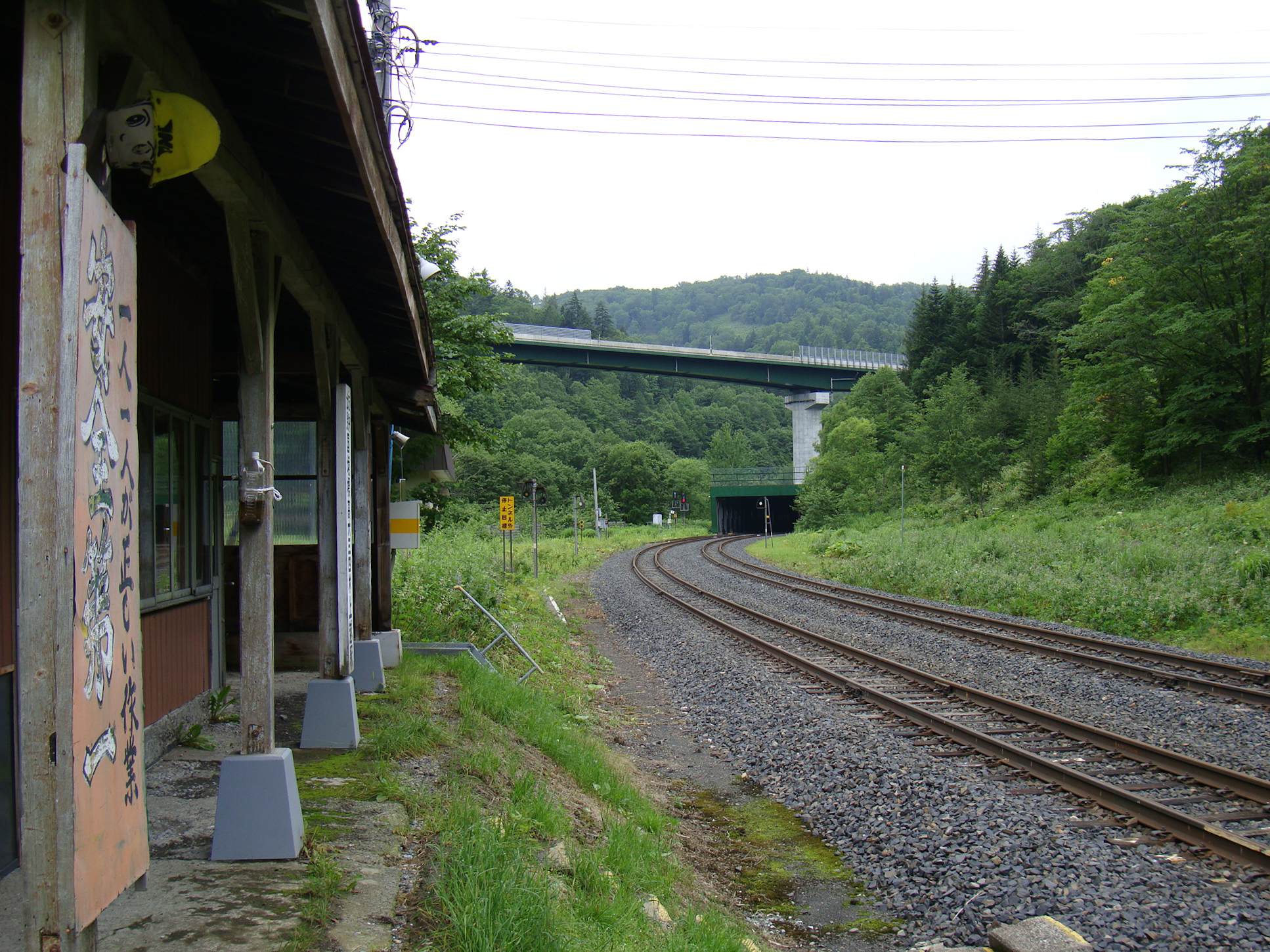 Kamikoshi Signal Base